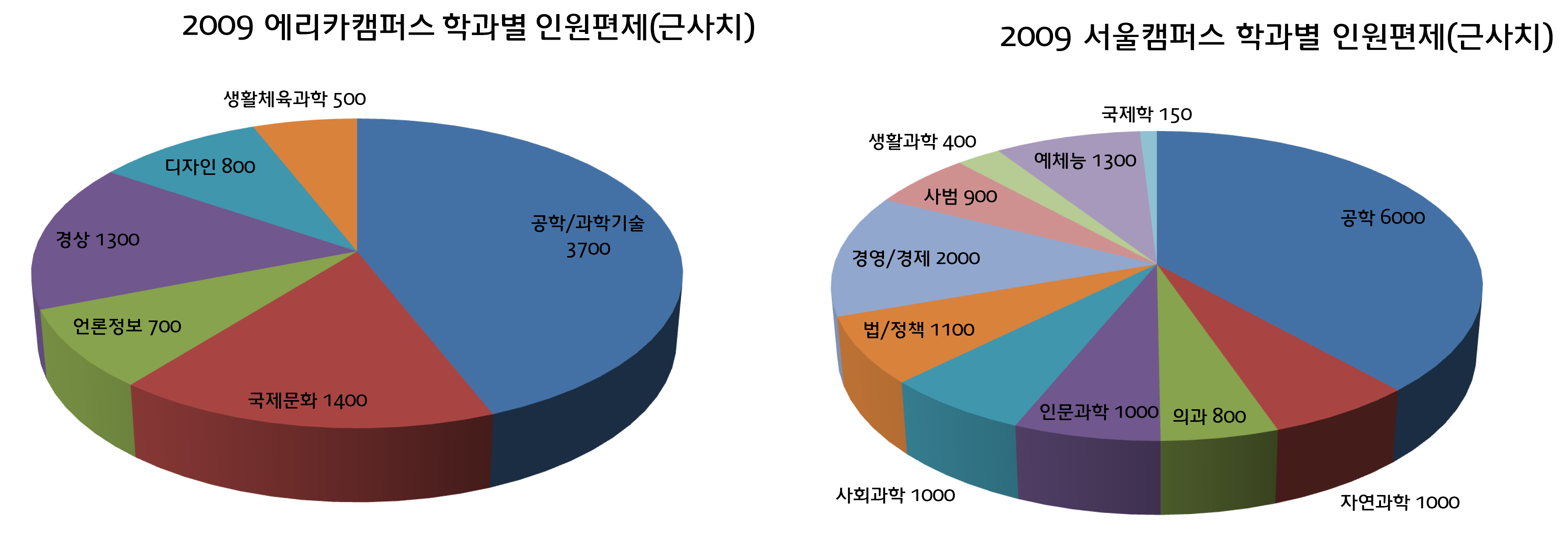 Statistics of Hanyang University, 2009